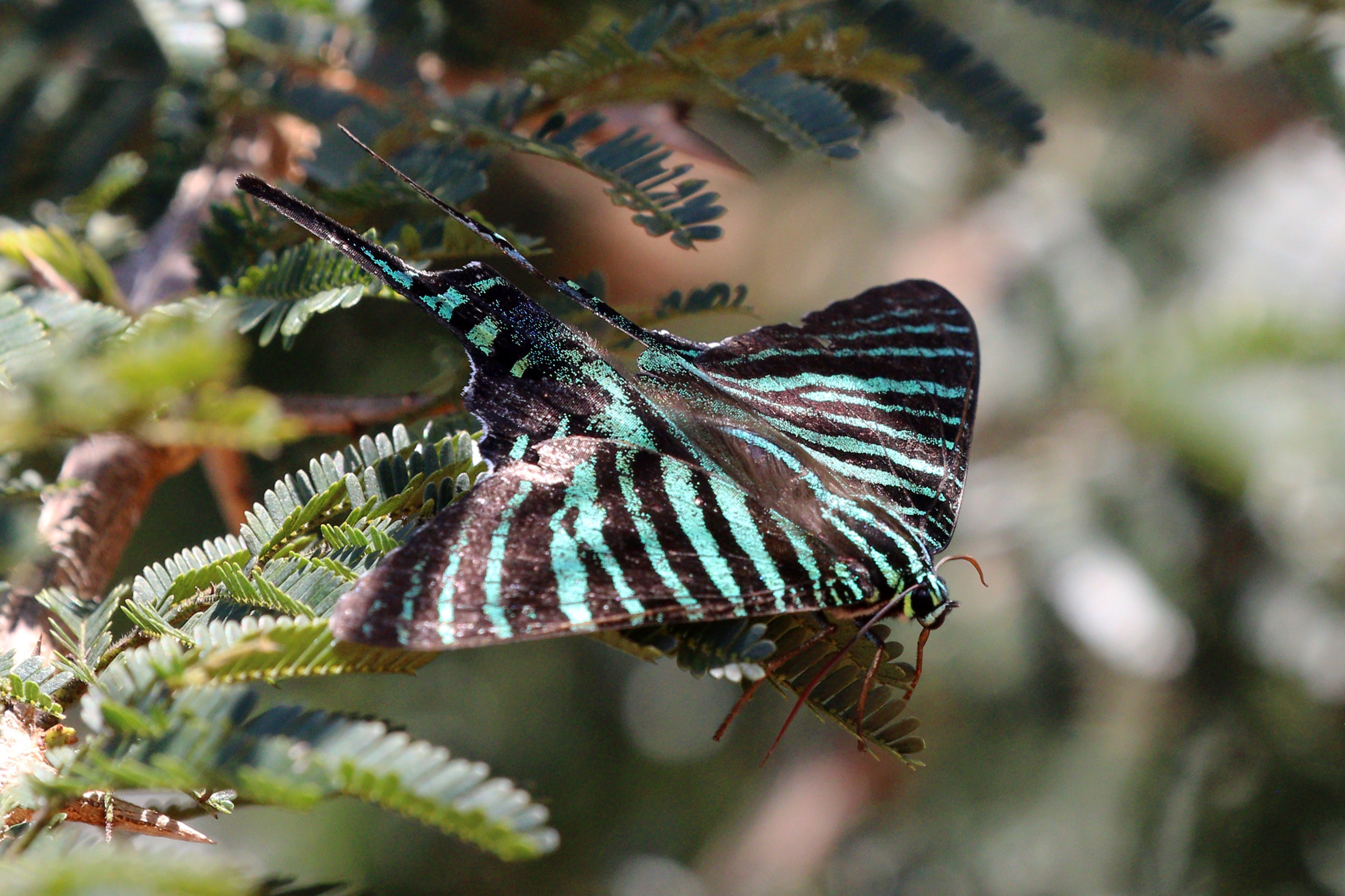 Urania moth (Urania boisduvalii), Valle de La Jutia, Vinales, Cuba